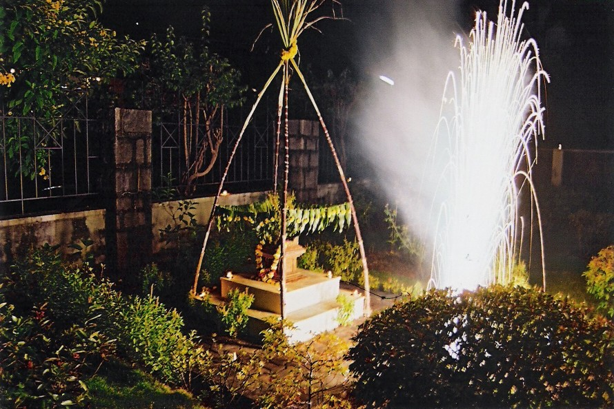 Tulasi puja fireworks